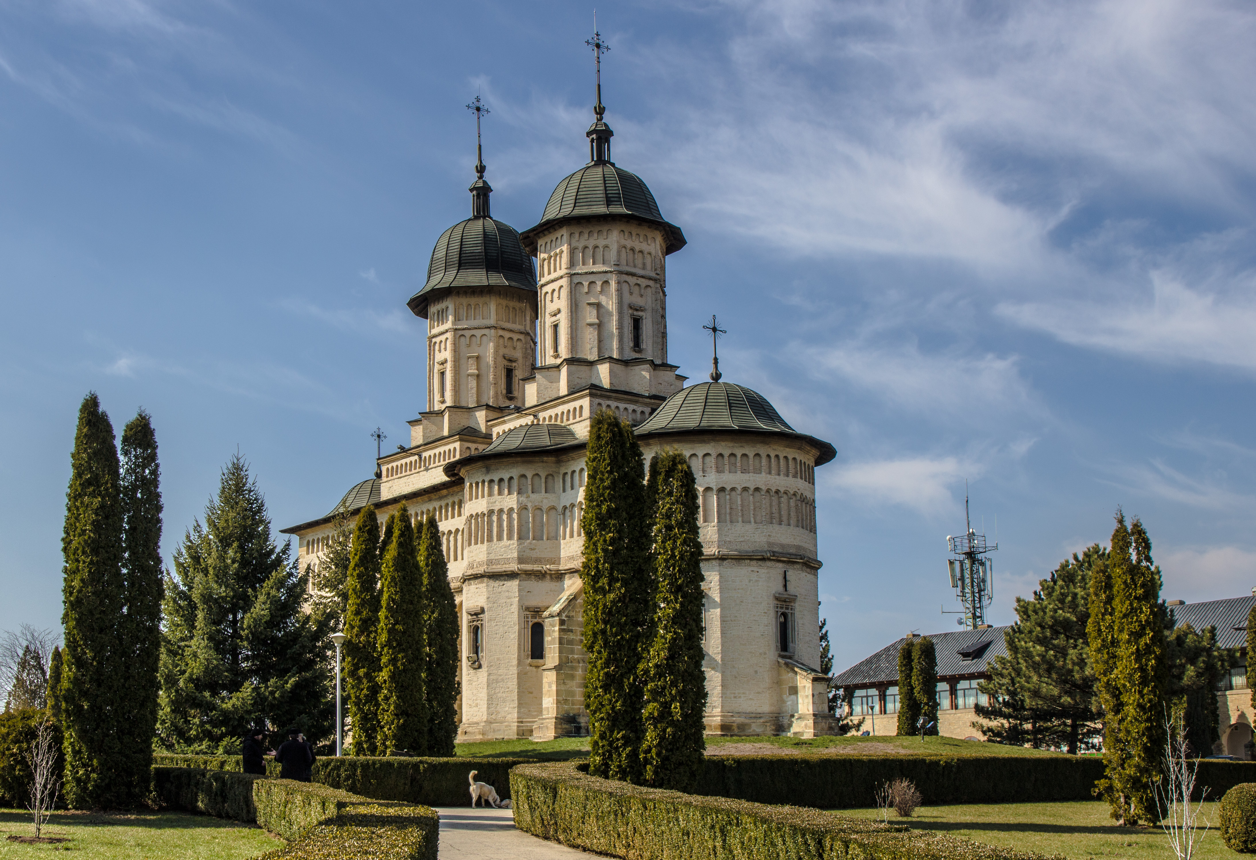 Cetatuia Monastery, Iasi